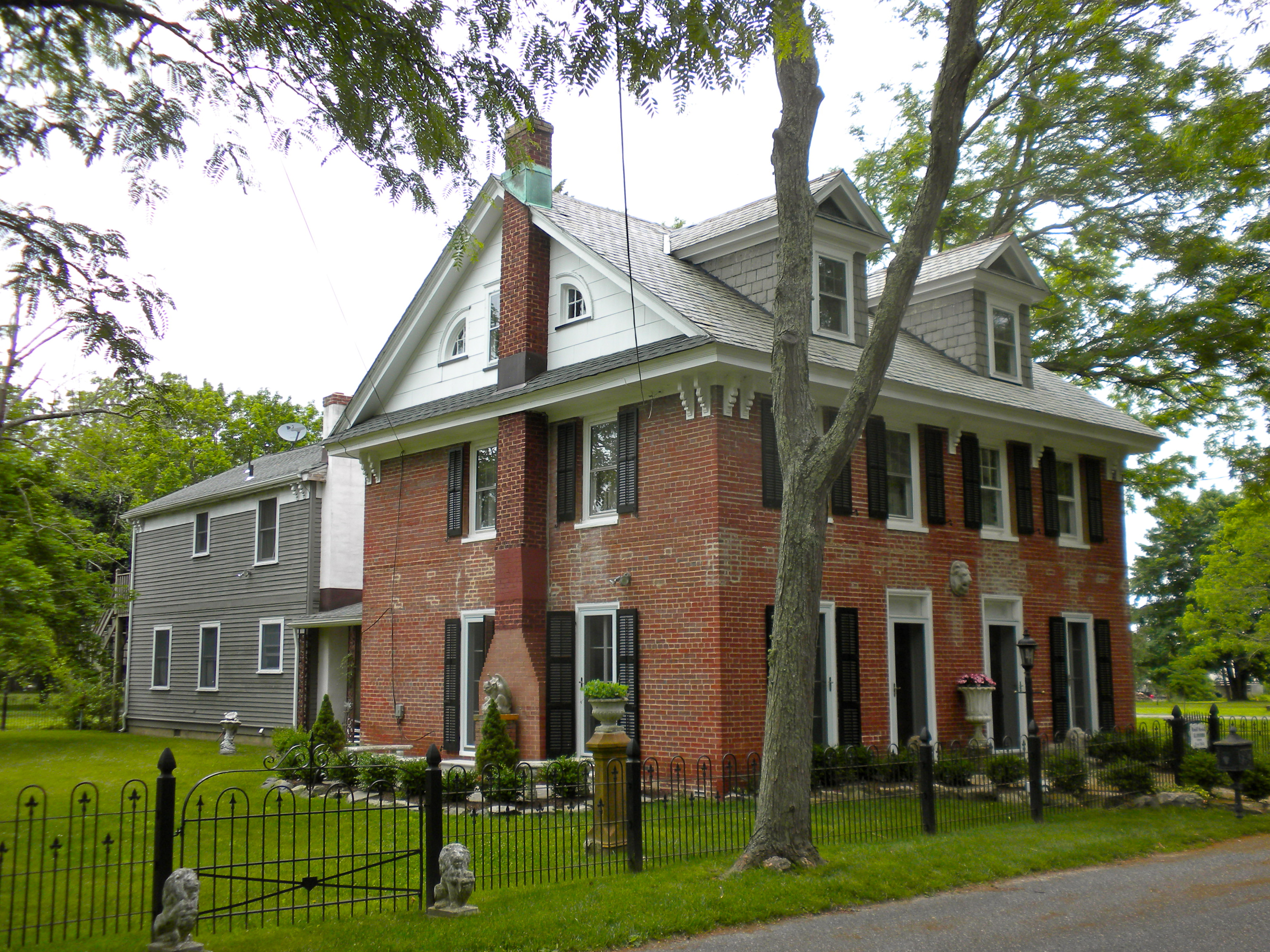 Inn in Marshallville Historic District, on NRHP since November 28, 1989 . along Marshallville Rd. at Co. Rt. 557 in Upper Township, Cape May County, NJ. Part of an old glassmaking town. At its height there were about 40 houses in the "village." Now there are about a dozen.